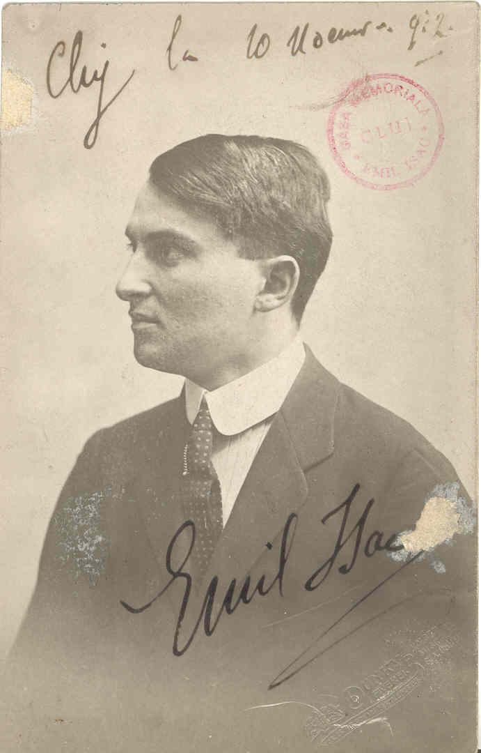 portrait of Romanian poet Emil Isac